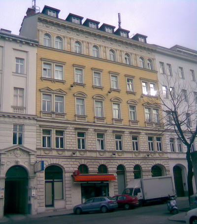 polish house in Vienna